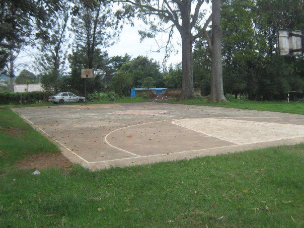 basket ball court